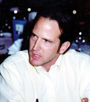 Tim Stryker at TwoBBScon event in Dusseldorf, Germany